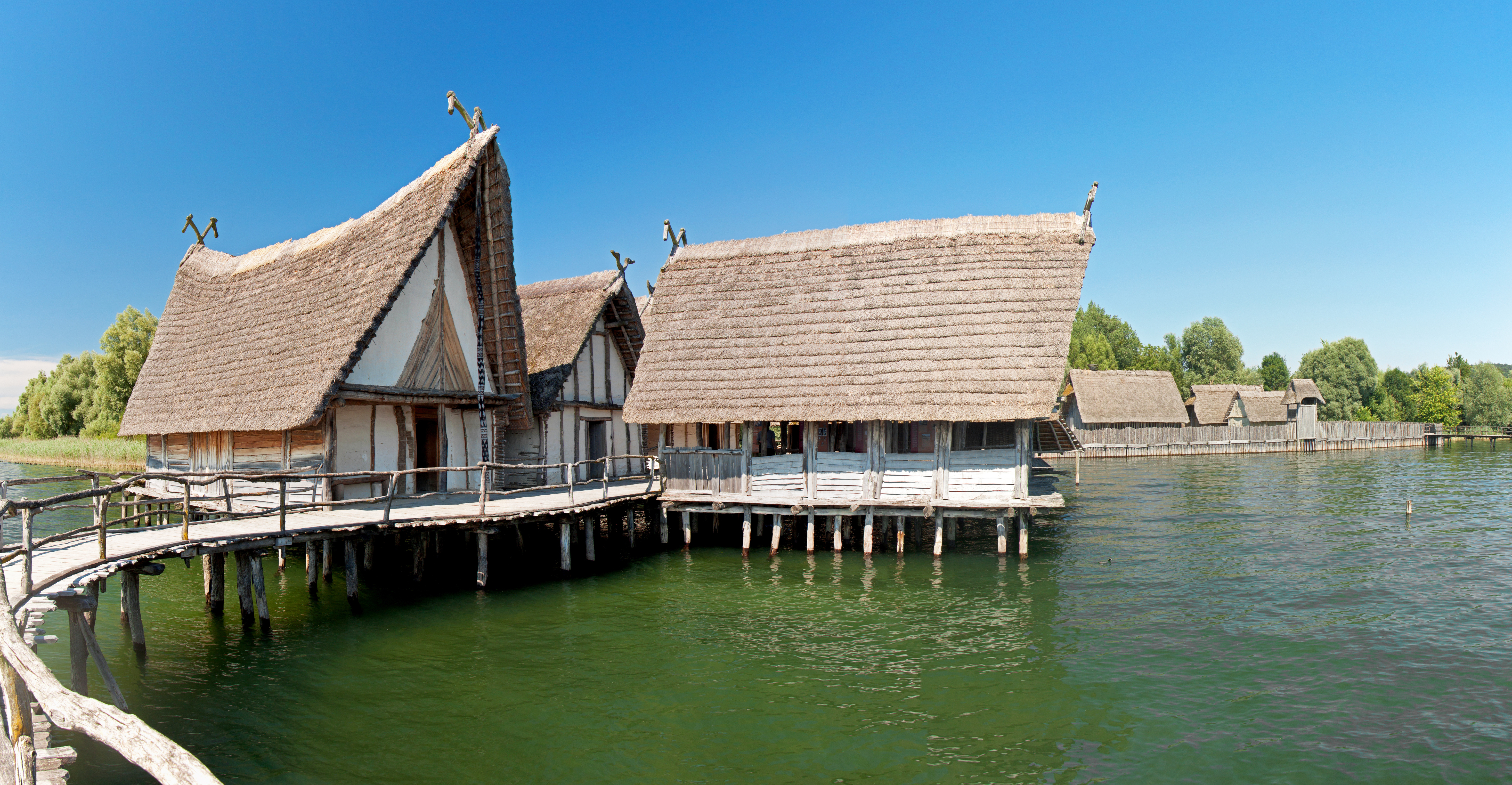 Bronze Age Village Unteruhldingen, Pfahlbaumuseum Unteruhldingen, Uhldingen-Mühlhofen, Lake Constance, Germany